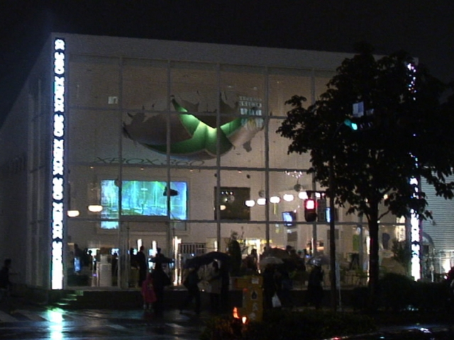 YouTube and Microsoft Xbox 360 Lounge in San Rose, California. (video camera still)